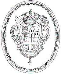 Coat of arms of Orthodox Metropolitanate of Karlovci in the Habsburg Monarchy from 1713.